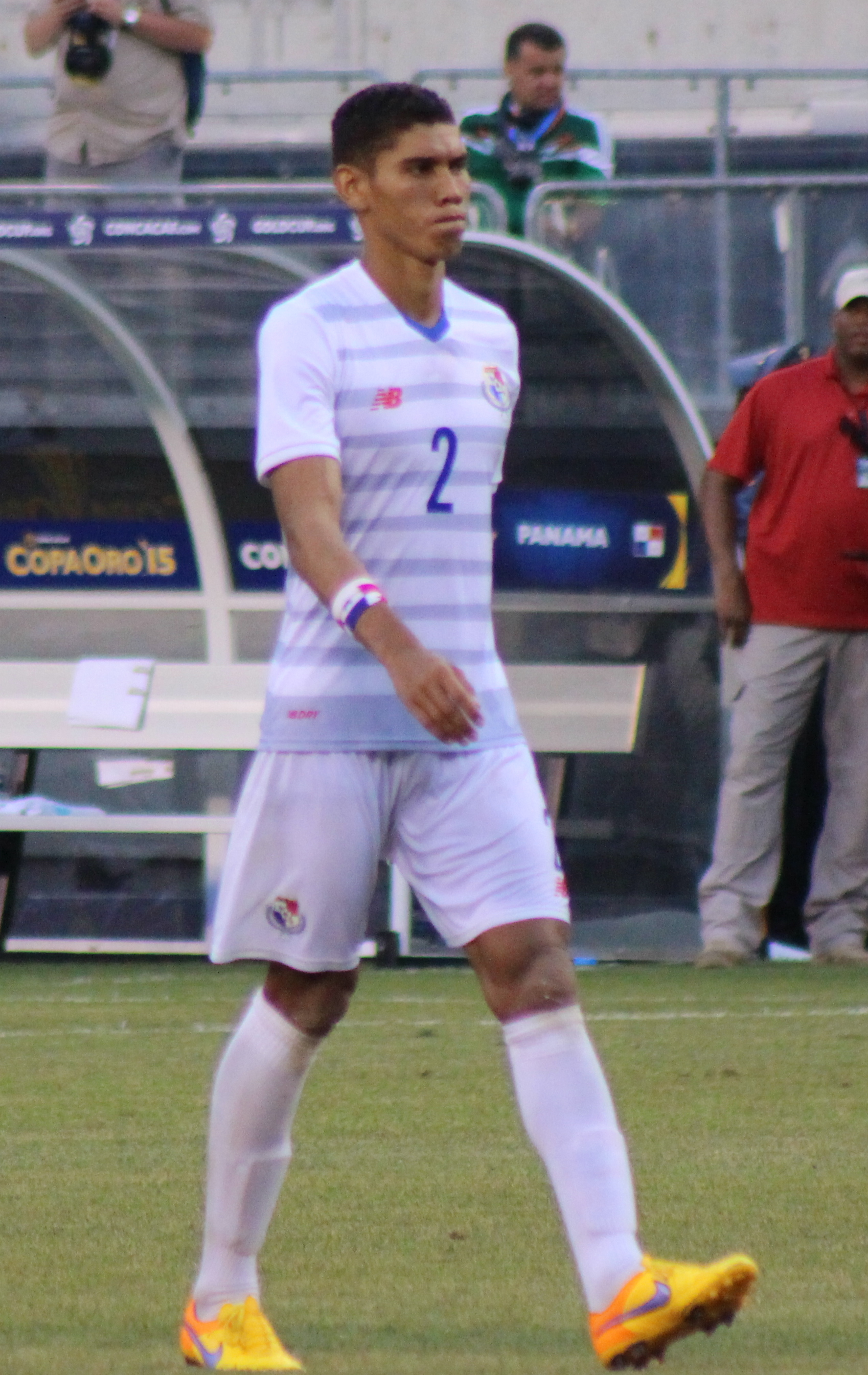 Valentín Pimentel